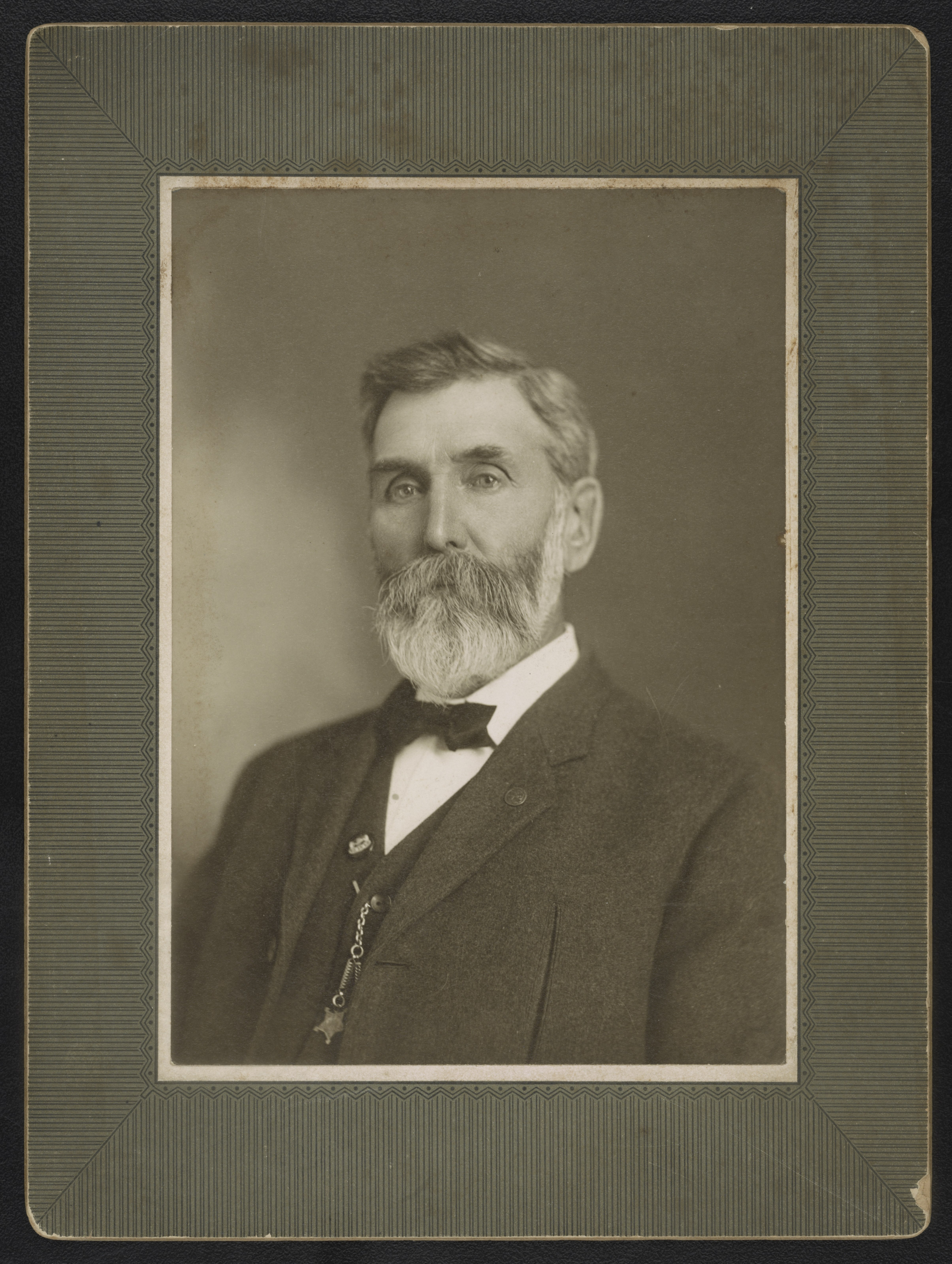 Title: Hiram G. McQuiston, veteran of Co. H, 7th Ohio Infantry Regiment and Co. and Co. K, 6th Regular Army Cavalry Regiment with G.A.R. watch chain and lapel pin Abstract/medium: 1 photograph : albumen print on card mount ; mount 20 x 15 cm.